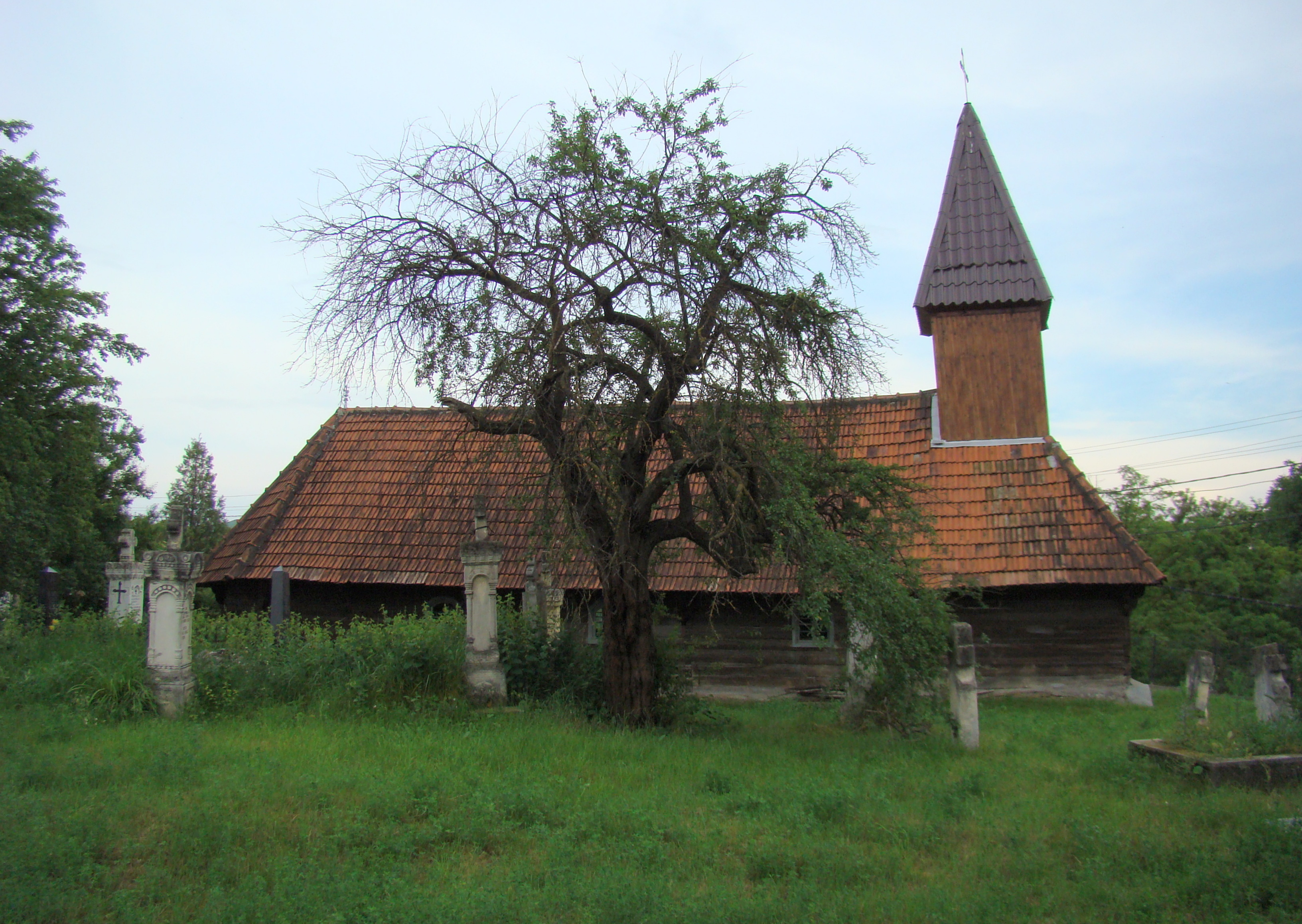 The wooden church in Sâncrai, Alba county, Romania